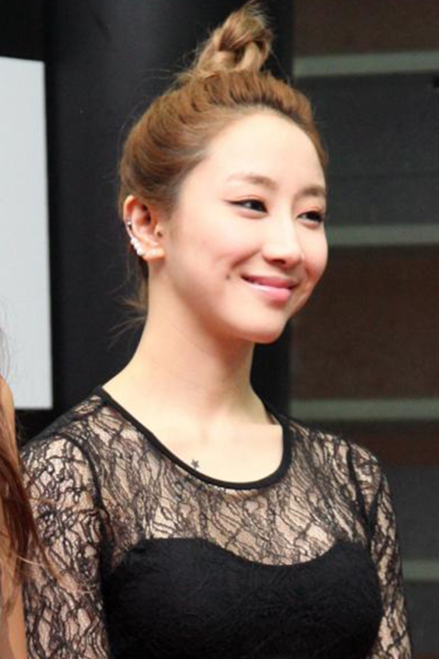 Sunday at Cyworld Dream Music Festival on July 23, 2011.